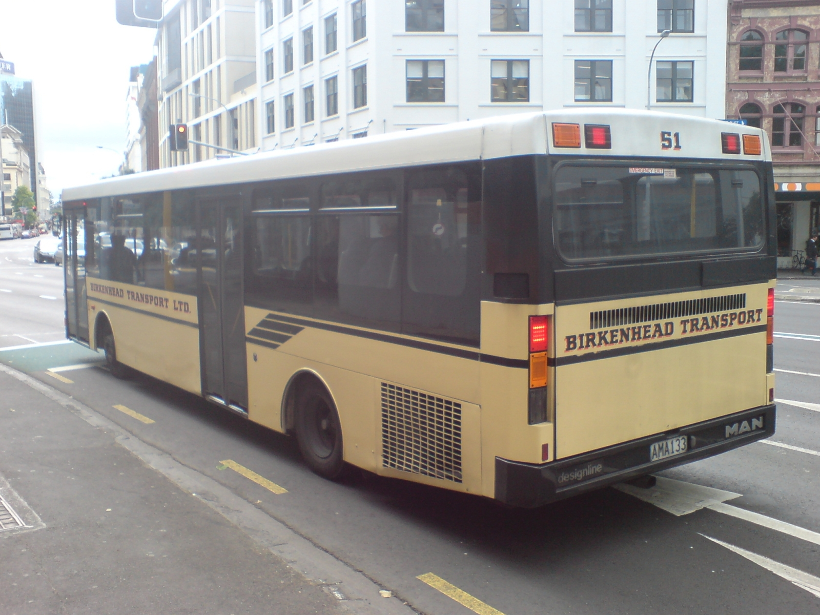 A Birkenhead Transport Ltd. bus in the Auckland CBD in Auckland City, New Zealand. Birkenhead Transport is often joked about for their old-style livery, and their old buses - when in fact, they own reasonably modern ones (but that is often less obvious under the paint job). Location is actually at the western end of Beach Road, not Quay Street.